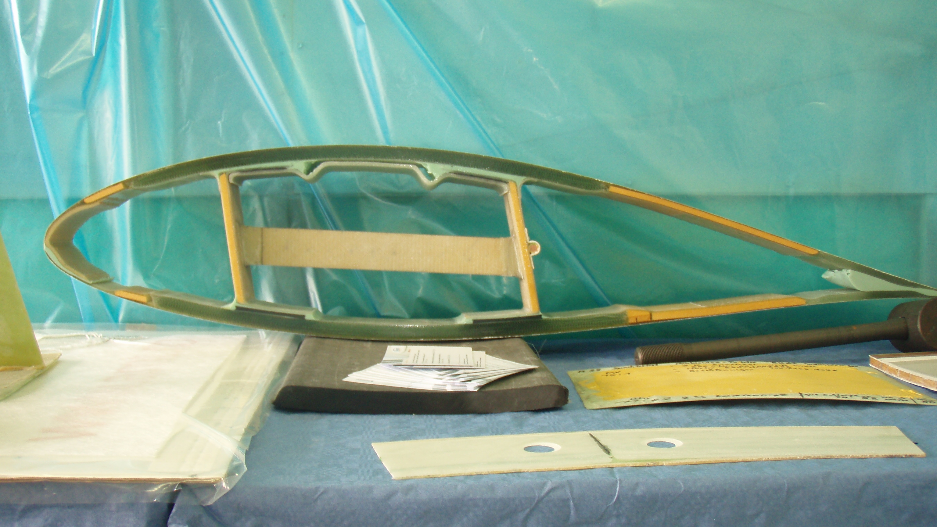 cross section of a rotor blade of a wind turbine